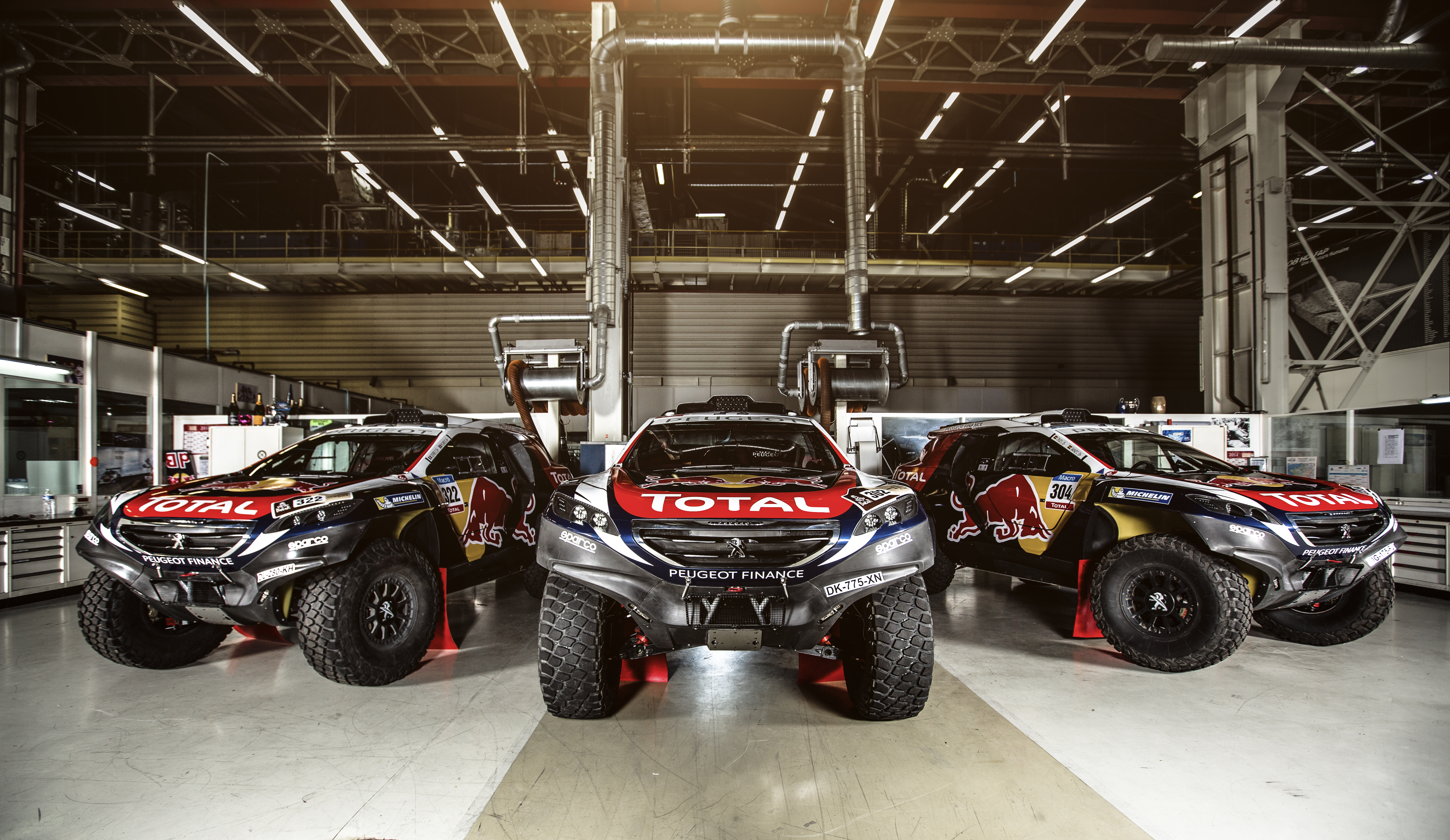 The Peugeot 2008 DKR. Peugeot's challenger in the 2015 Dakar Rally.